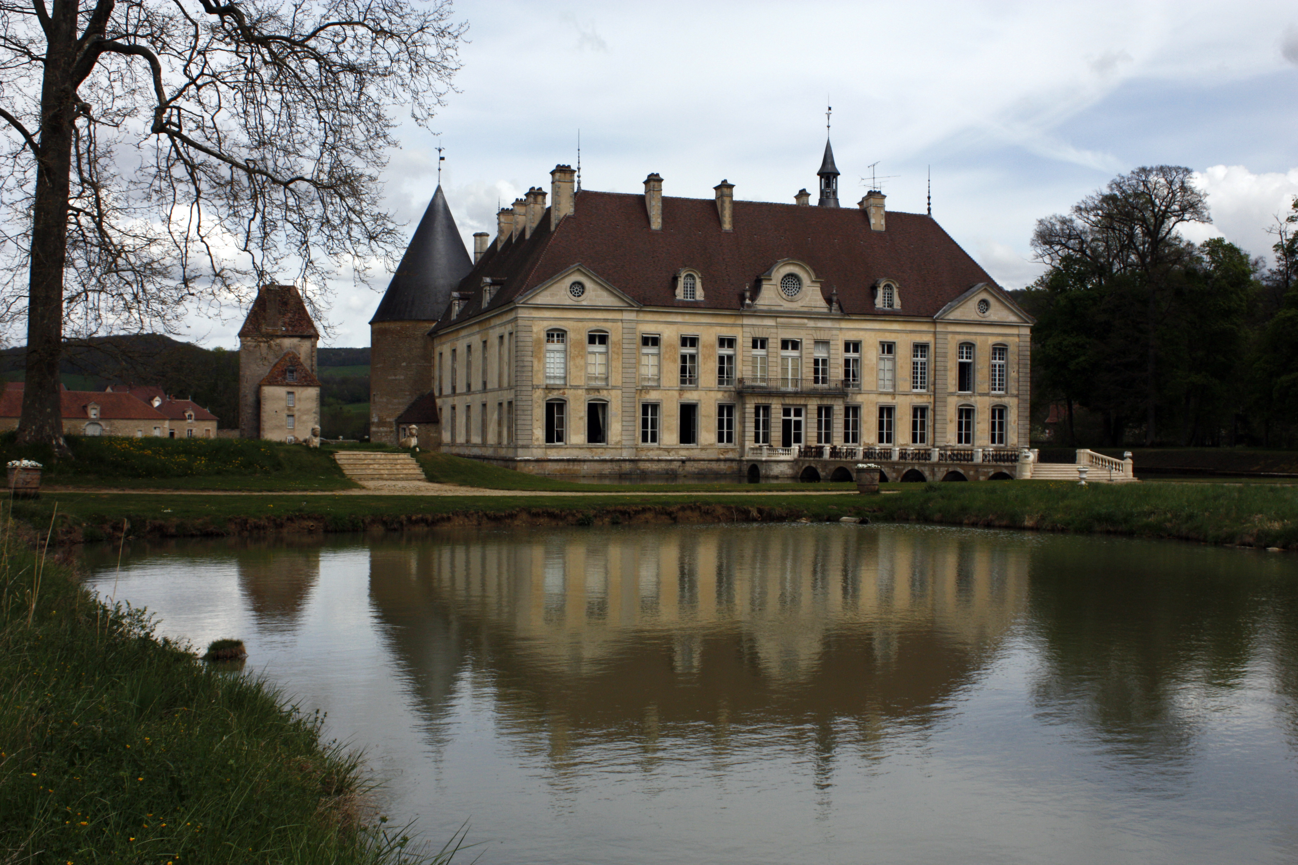 The castle has two pools, symmetrical, beyond the moats.